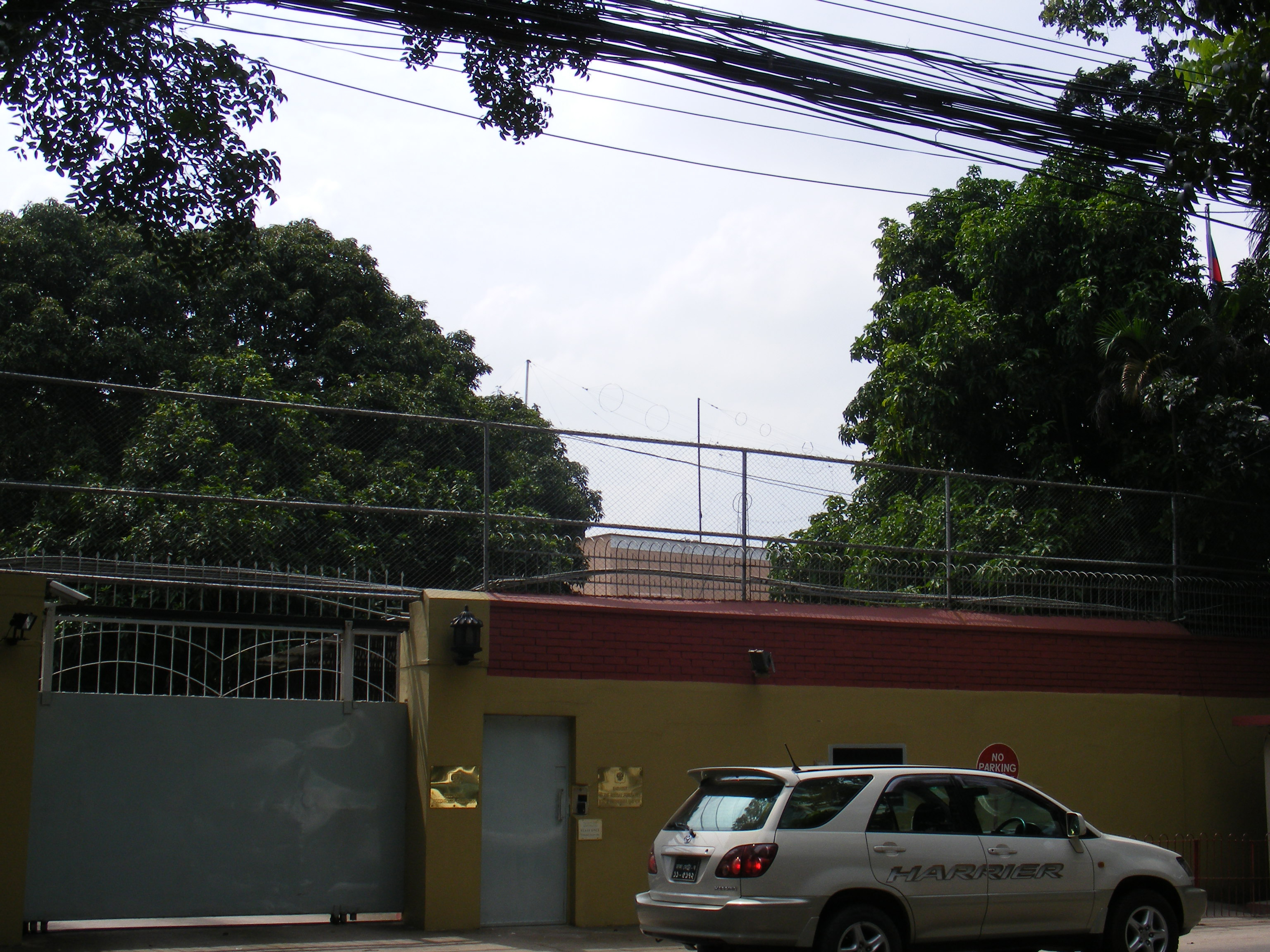 Main gate of the consulate of the Russian Federation in Gulshan-2, Dhaka, Bangladesh. This is only the outside view. Inside view is not available due to security reasons.